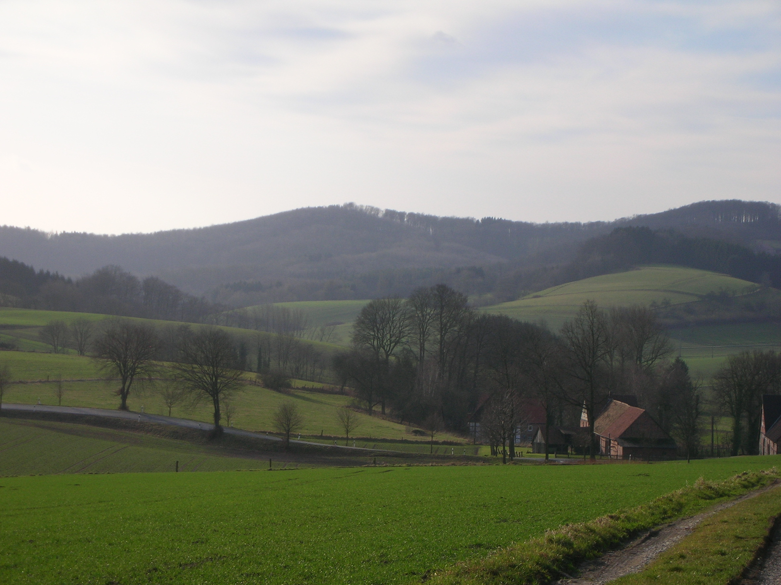 Amelungsburg in the Lippe Uplands near Dörentrup, Lippe District, North Rhine-Westphalia, Germany.